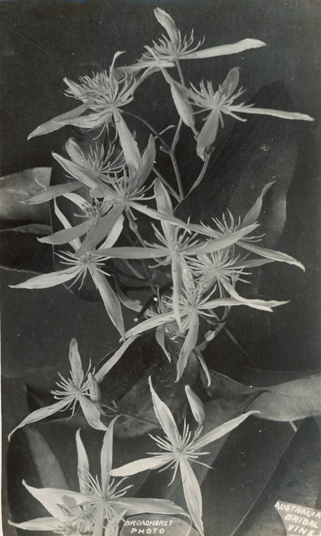 Australian Bridal Vine